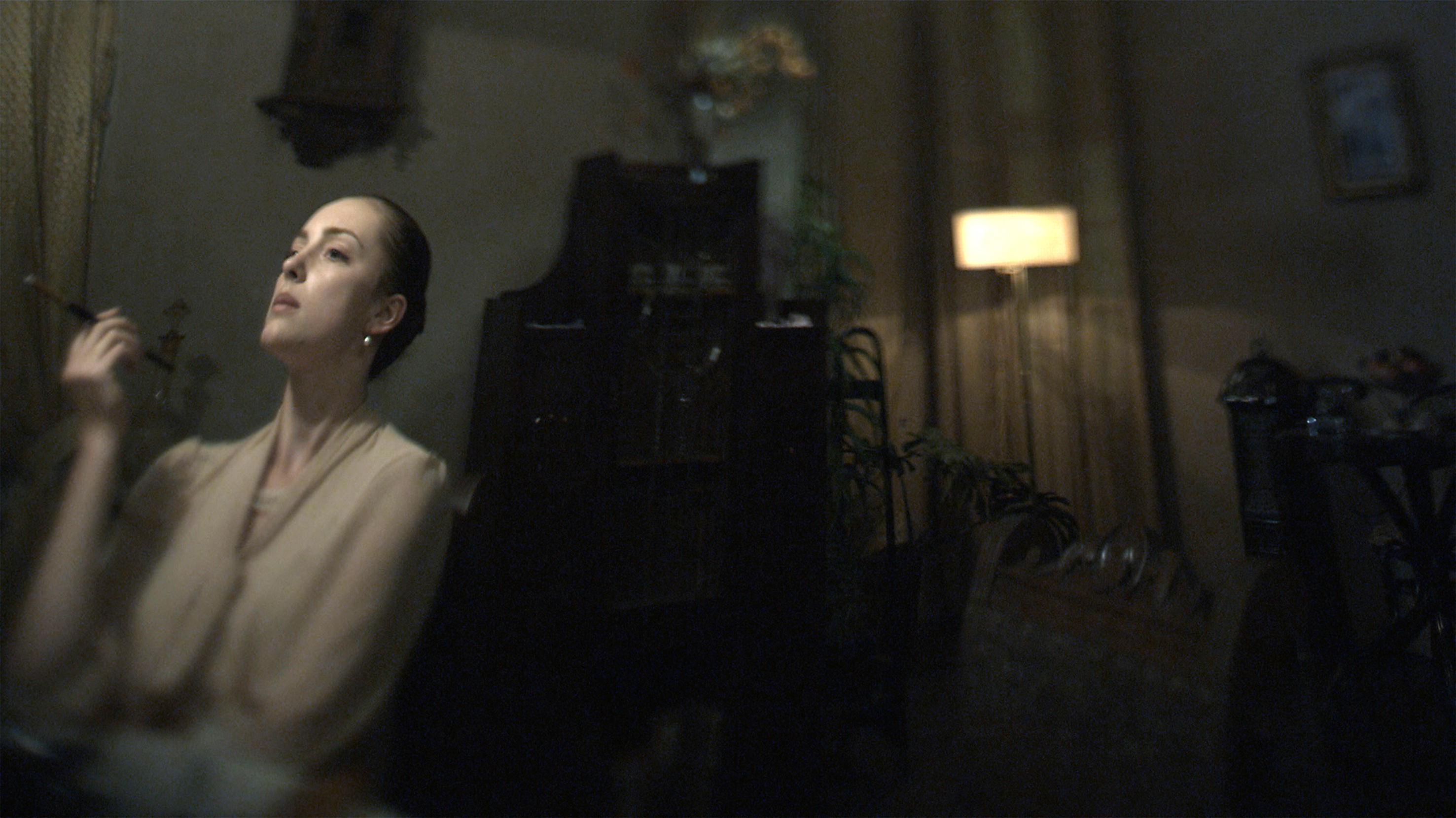 Delirium (film) still